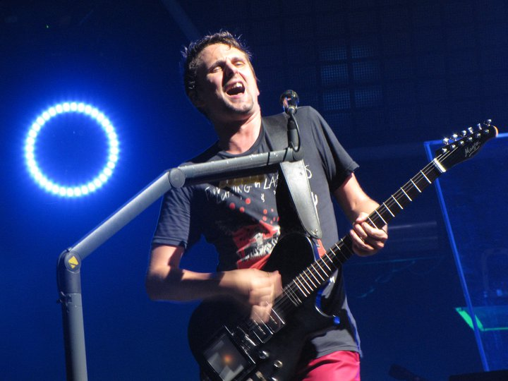 Matthew Bellamy of Muse performing at Kansas Speedway in Kanrocksas festival 2011